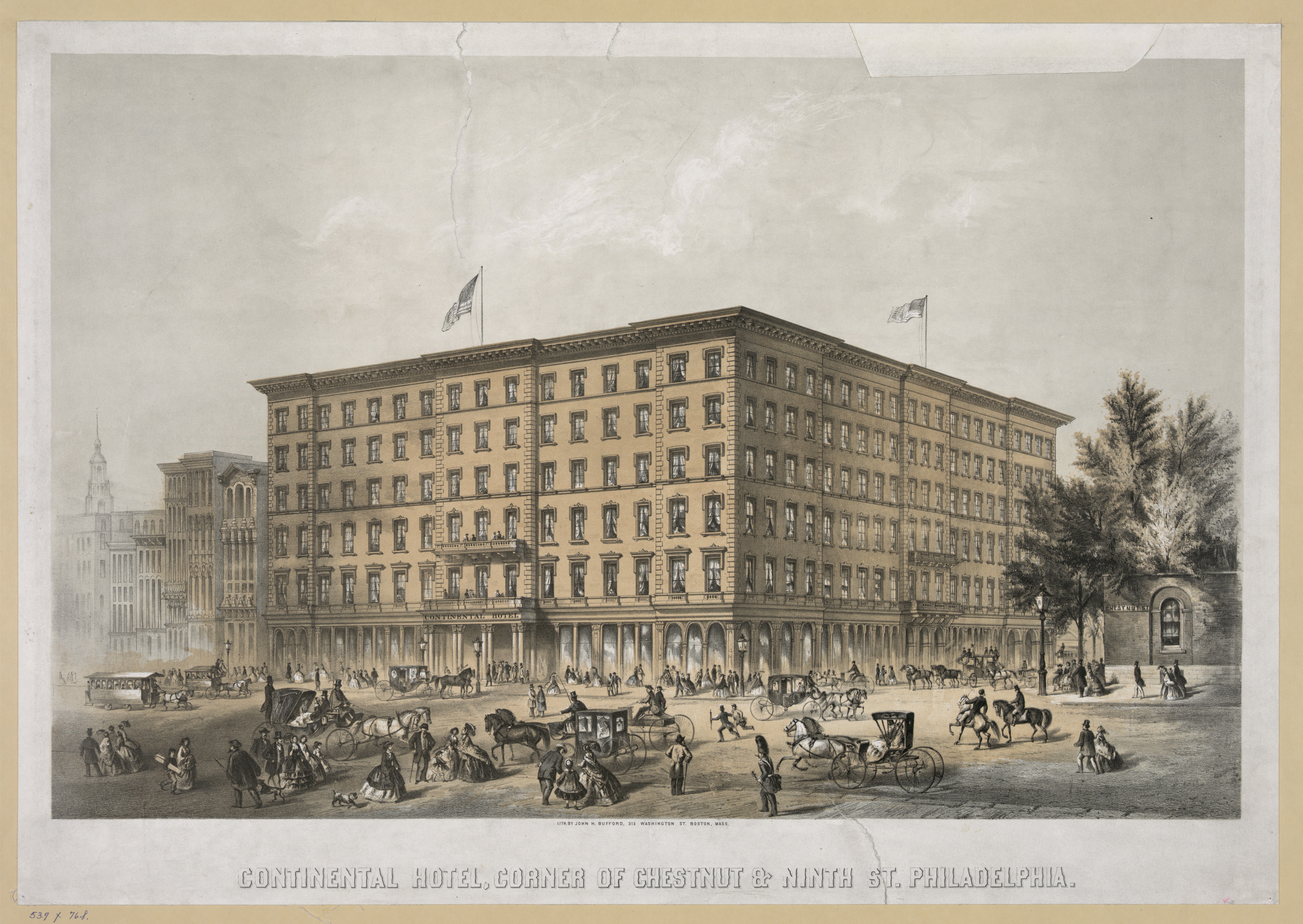 Title: Continental Hotel, corner of Chestnut & Ninth street Philadelphia Physical description: 1 print. Notes: This record contains unverified data from PGA shelflist card.; Associated name on shelflist card: Bufford.